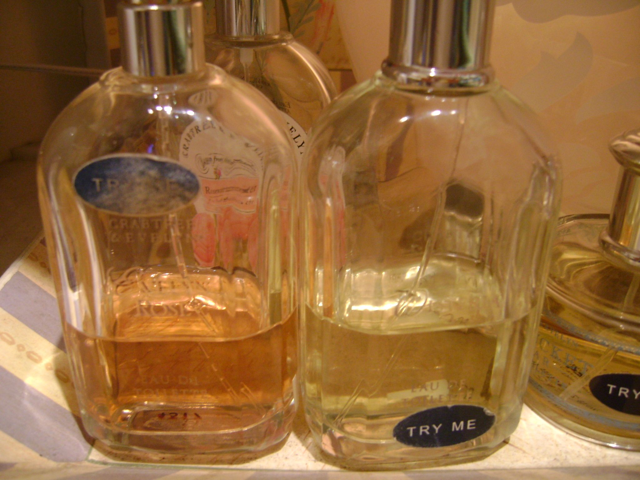 Eau de toilette bottles